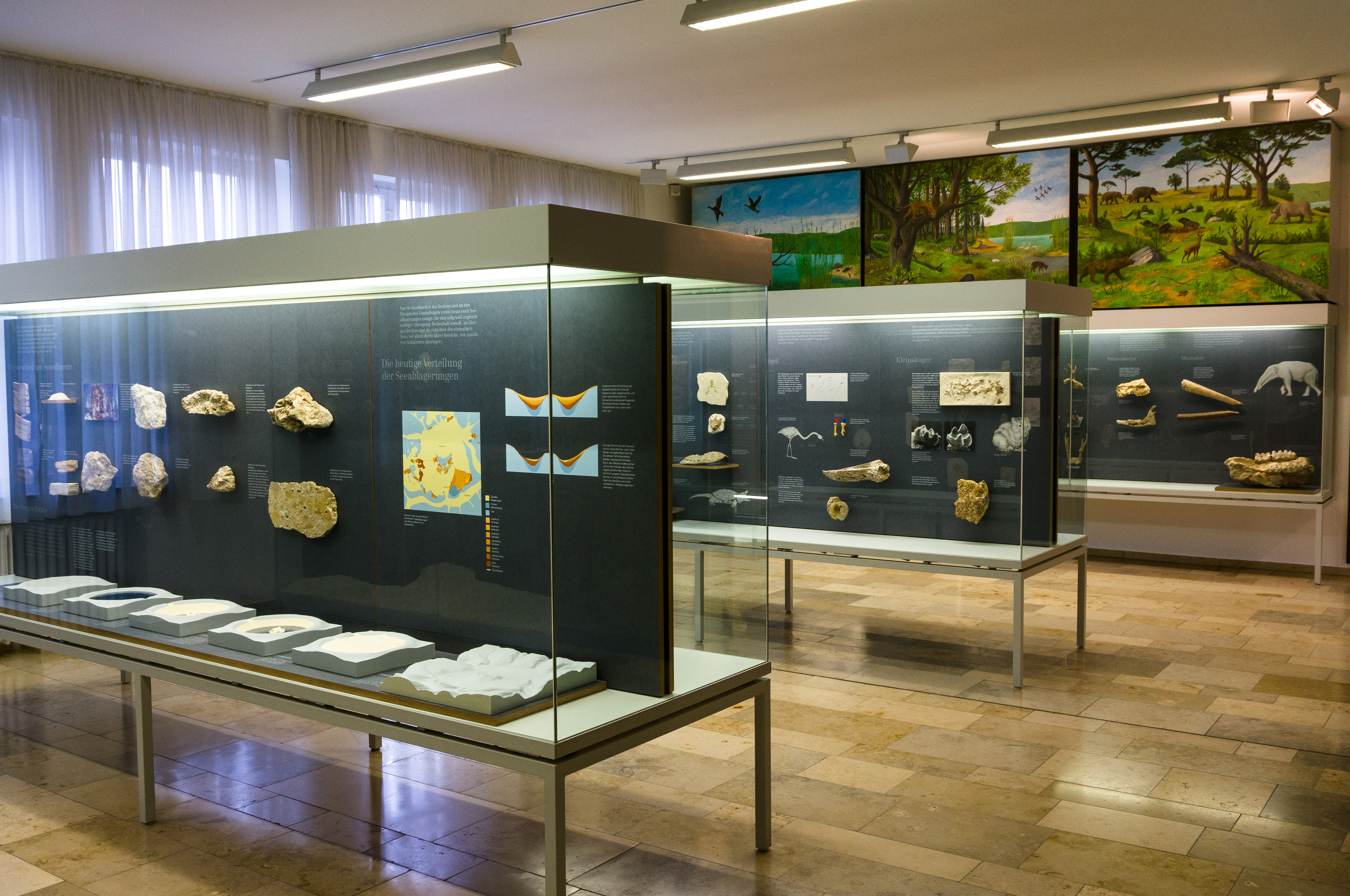 The palaeontological exhibition room of the Meteorkratermuseum in Steinheim am Albuch, Baden-Württemberg, Germany